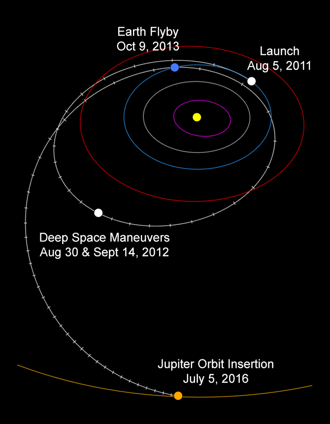 Juno required a gravity assist from Earth in order to reach Jupiter, which necessitated a path that spiraled out beyond Mars and back, before continuing toward its destination